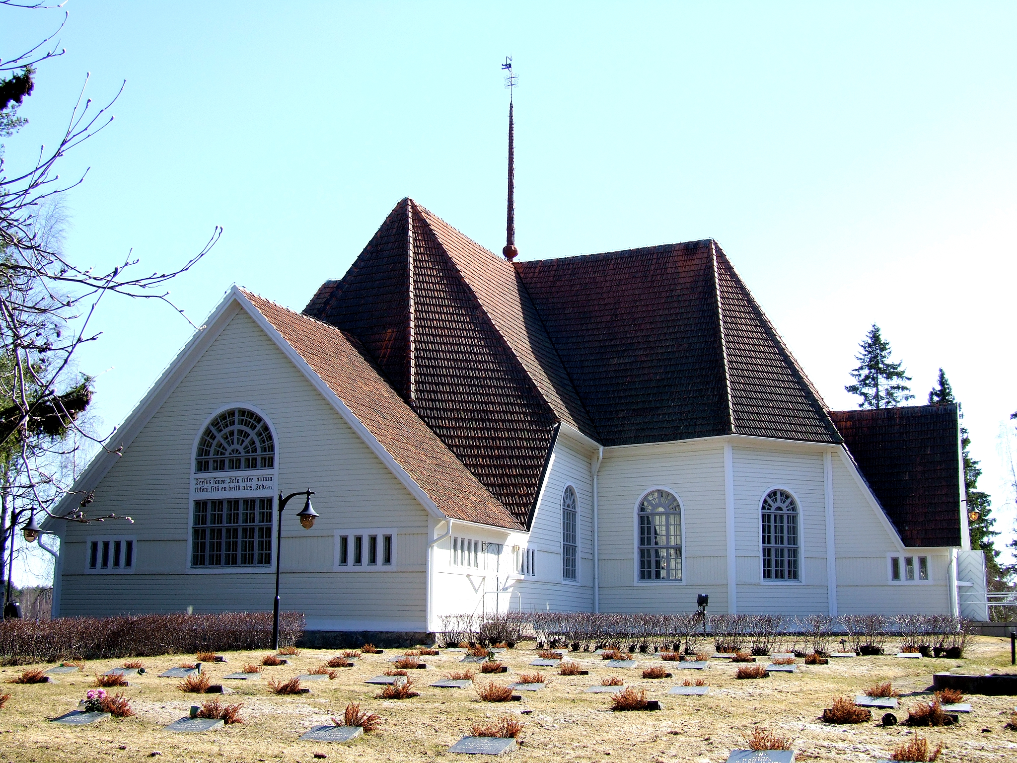 The Church of Haukipudas, Finland, by Matti Honka and Jaakko Suonperä was completed in the year 1762.